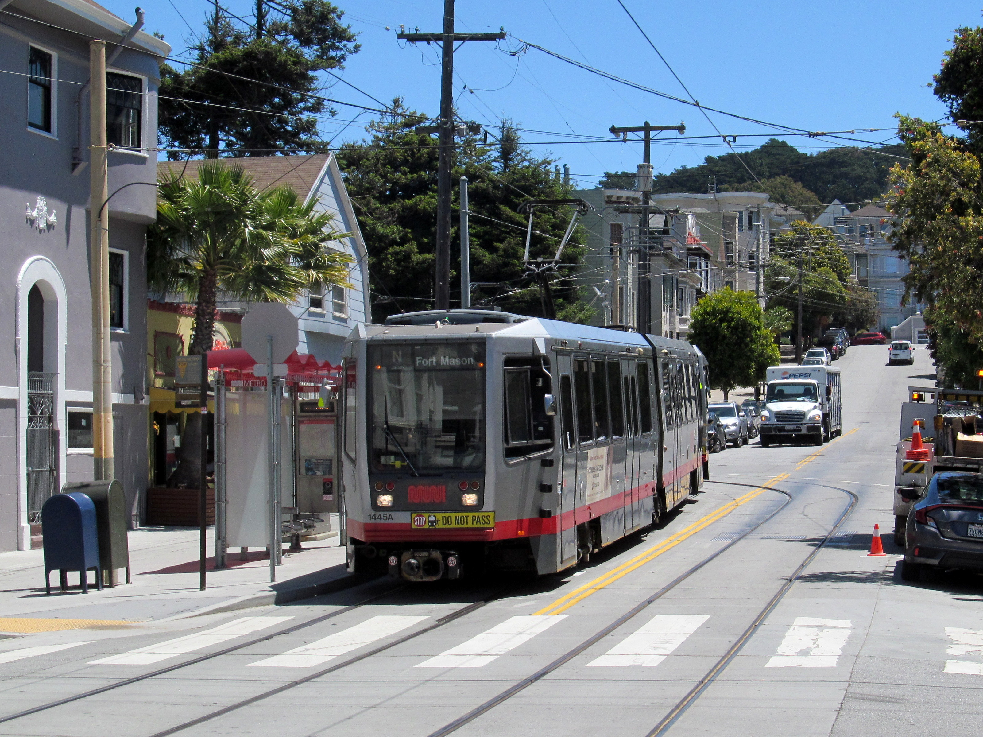 Outbound train at Carl and Cole station in June 2017. It has a "Fort Mason" rollsign - put in place for an F Market & Wharves extension not then realized.